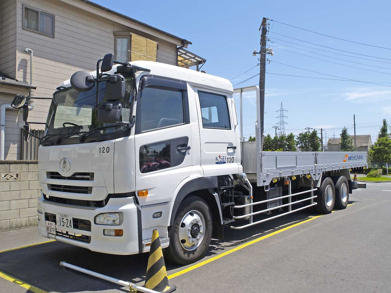 Example of large-sized training truck in Japan for driver's education, based GVW 20ton class trucks. License plate: TKA800HA1524